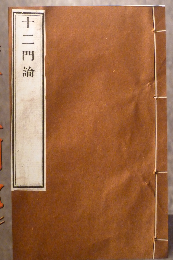 Dvāda-śanikāya Śāstra